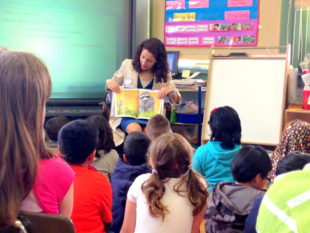 Simotas attends a "Proud to Read Aloud" day at P.S. 70 in Astoria, Queens.